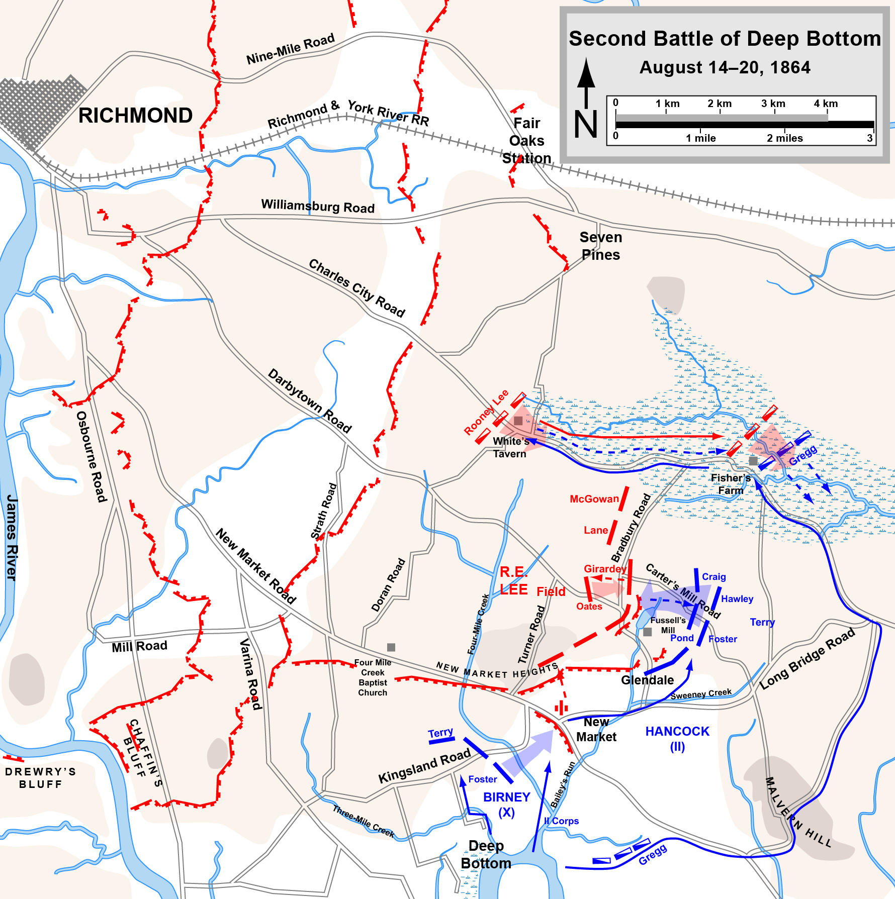 Map of Second Battle of Deep Bottom of the American Civil War. Drawn in Adobe Illustrator CS3 by Hal Jespersen. Graphic source file is available at